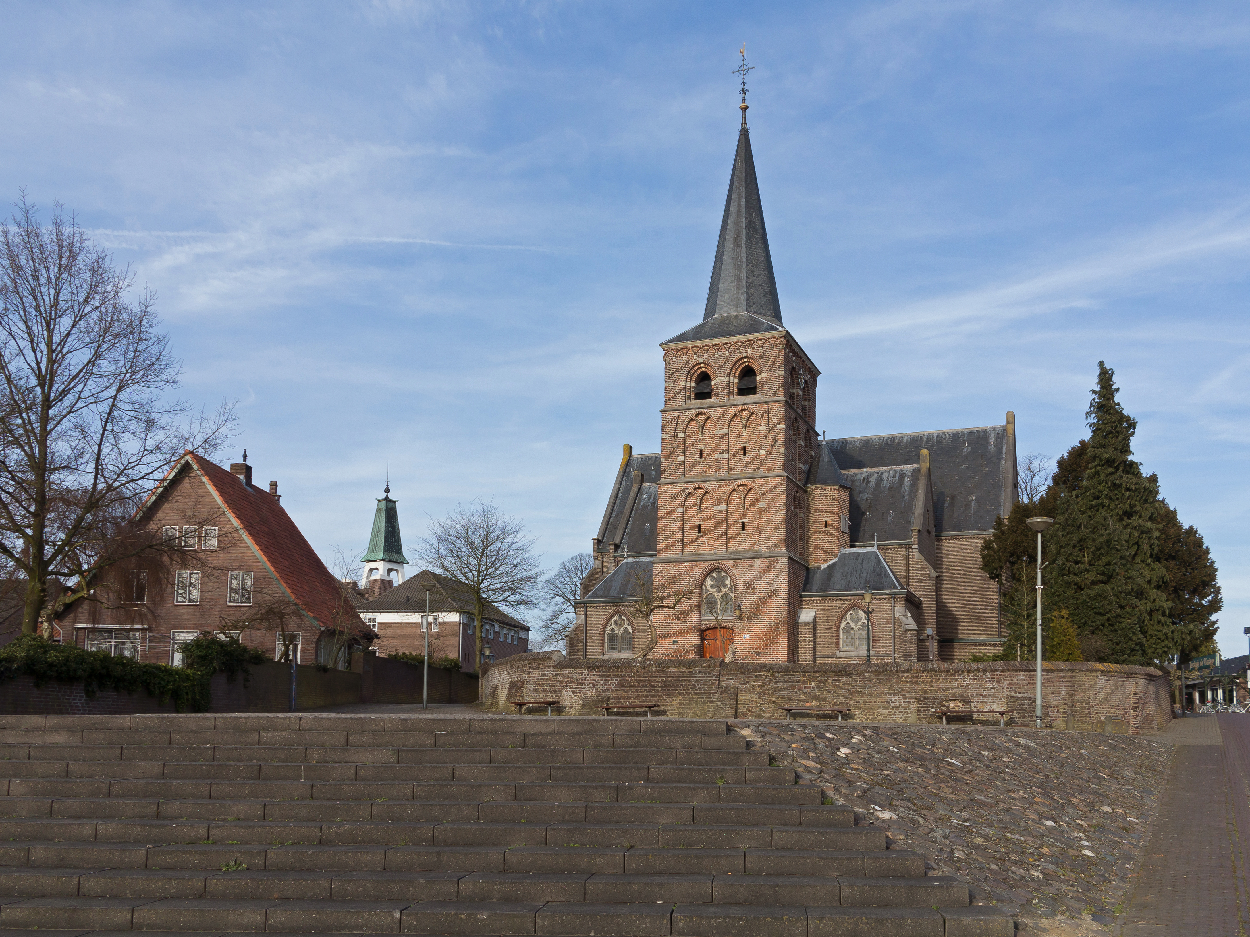 Mook, church: de Sint-Antonius Abtkerk